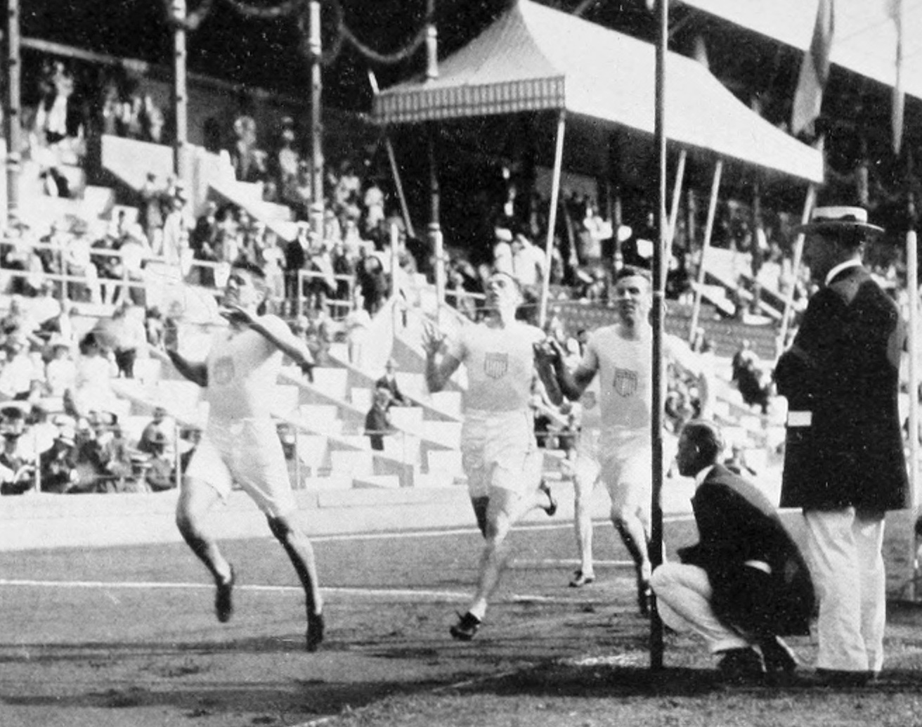 The finish of the men's 800 metre final at the 1912 Summer Olympics with the winner Ted Meredith setting a new world record. Ted Meredith (USA), Mel Sheppard, Ira Davenport (USA)